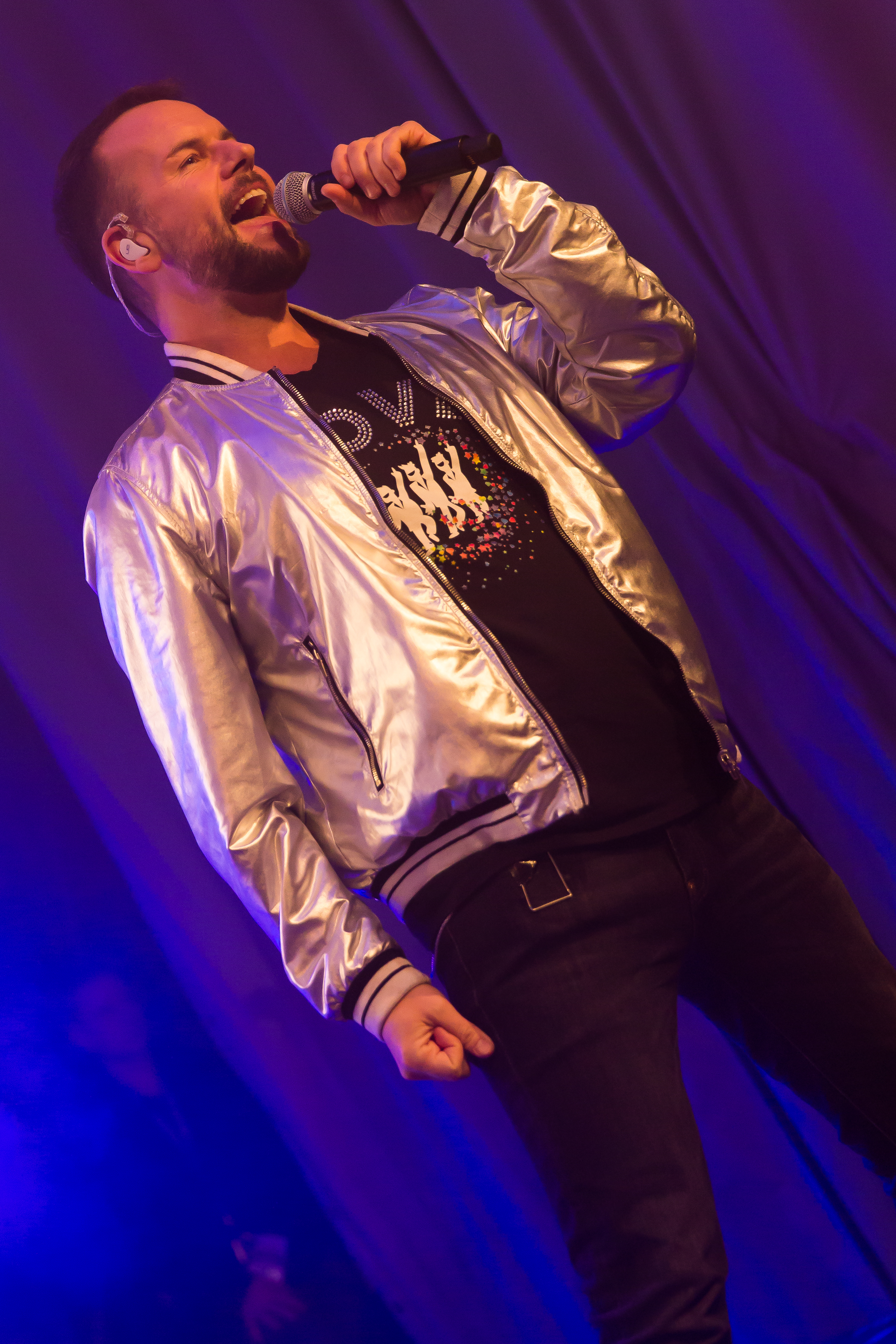 Caught in the Act during Caught in the Act at Alte Seilerei, Mannheim, Baden-Württemberg, Germany on 2016-12-16, Photo: Sven Mandel